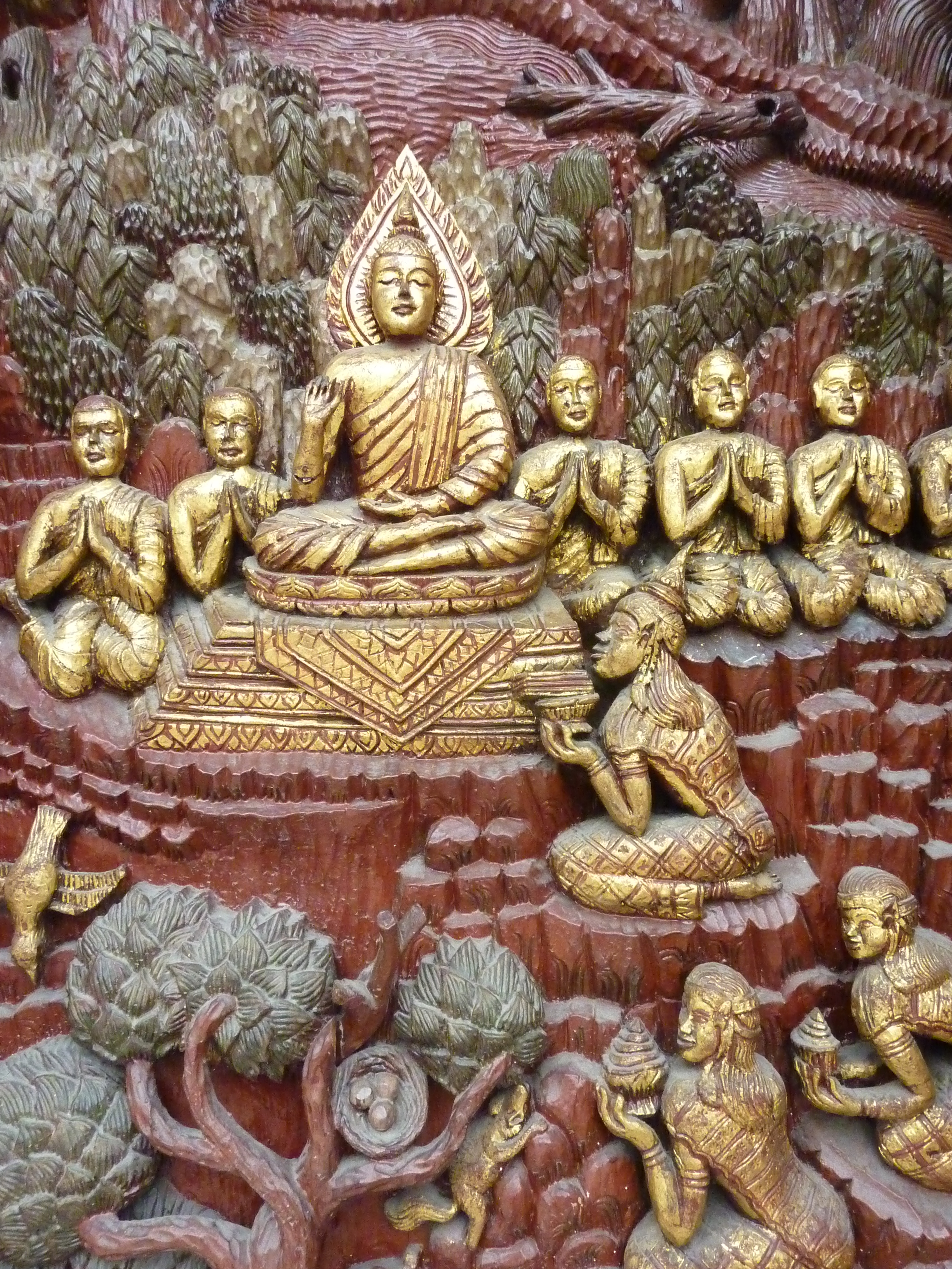 34 Buddha Preaching to Gods and Men, Wat Bupparam, Chiang Mai